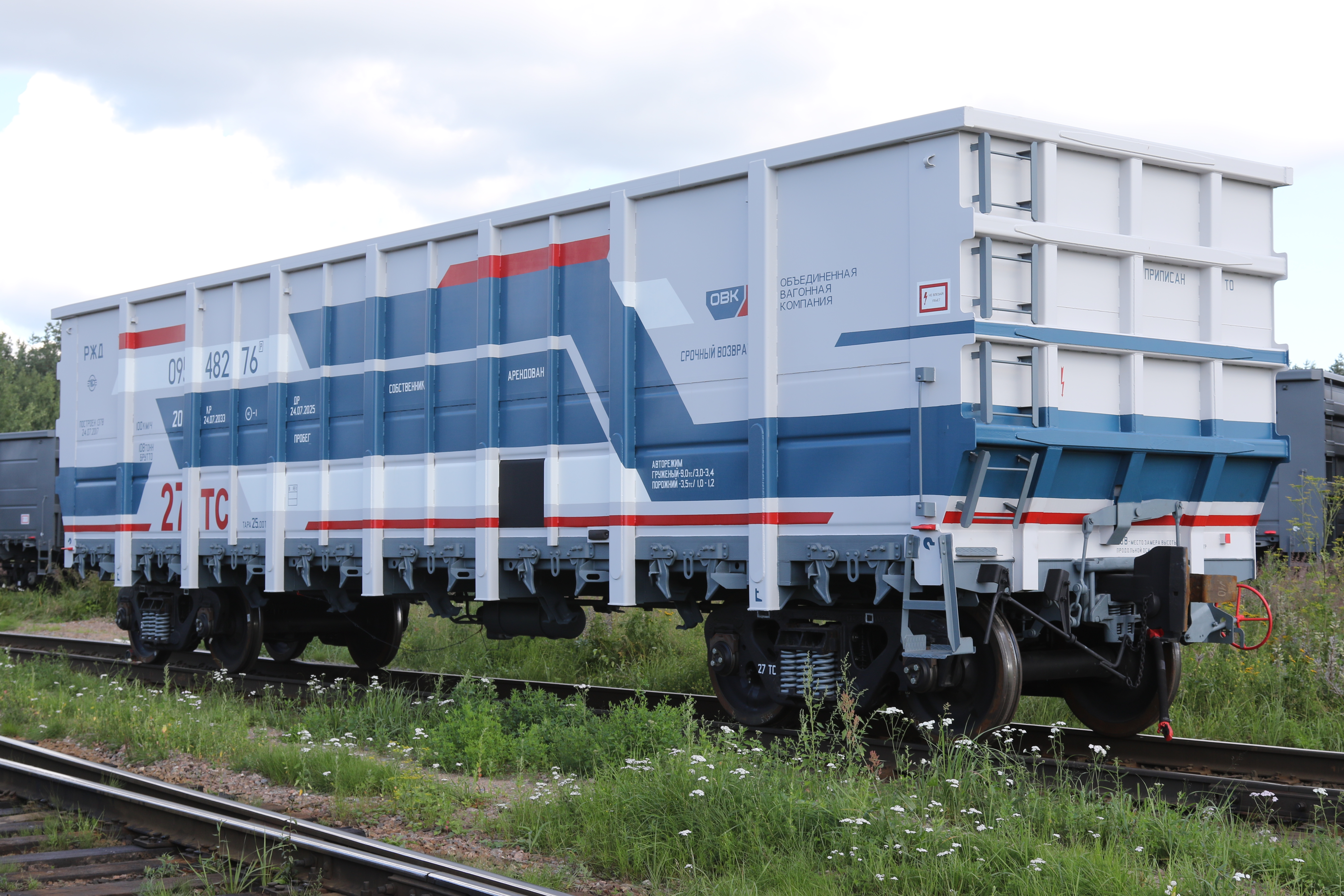 Vagon from OVK